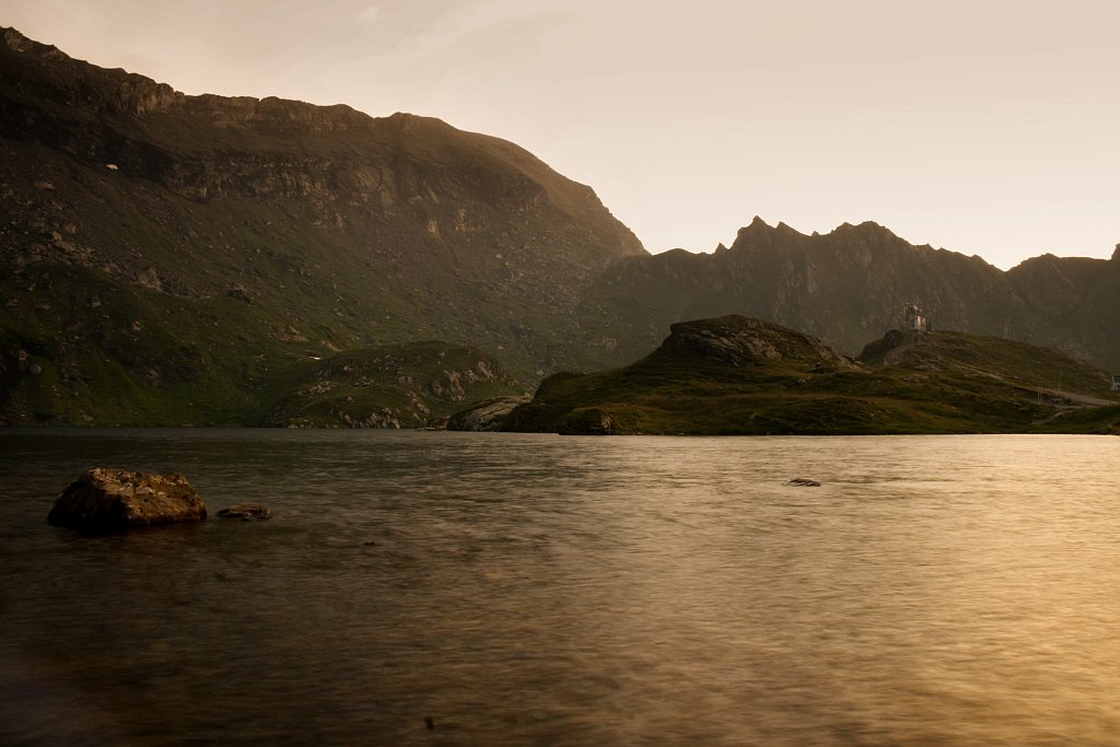 Balea Lake is situated at 2035m altitude in Fagaras Mountins - Romania, near the city of Sibiu. From the lake you can climbe in 1h30m to "Buteanu" Peak at 2508m a beautiful place where you can see all the Fagaras Mountins Chain